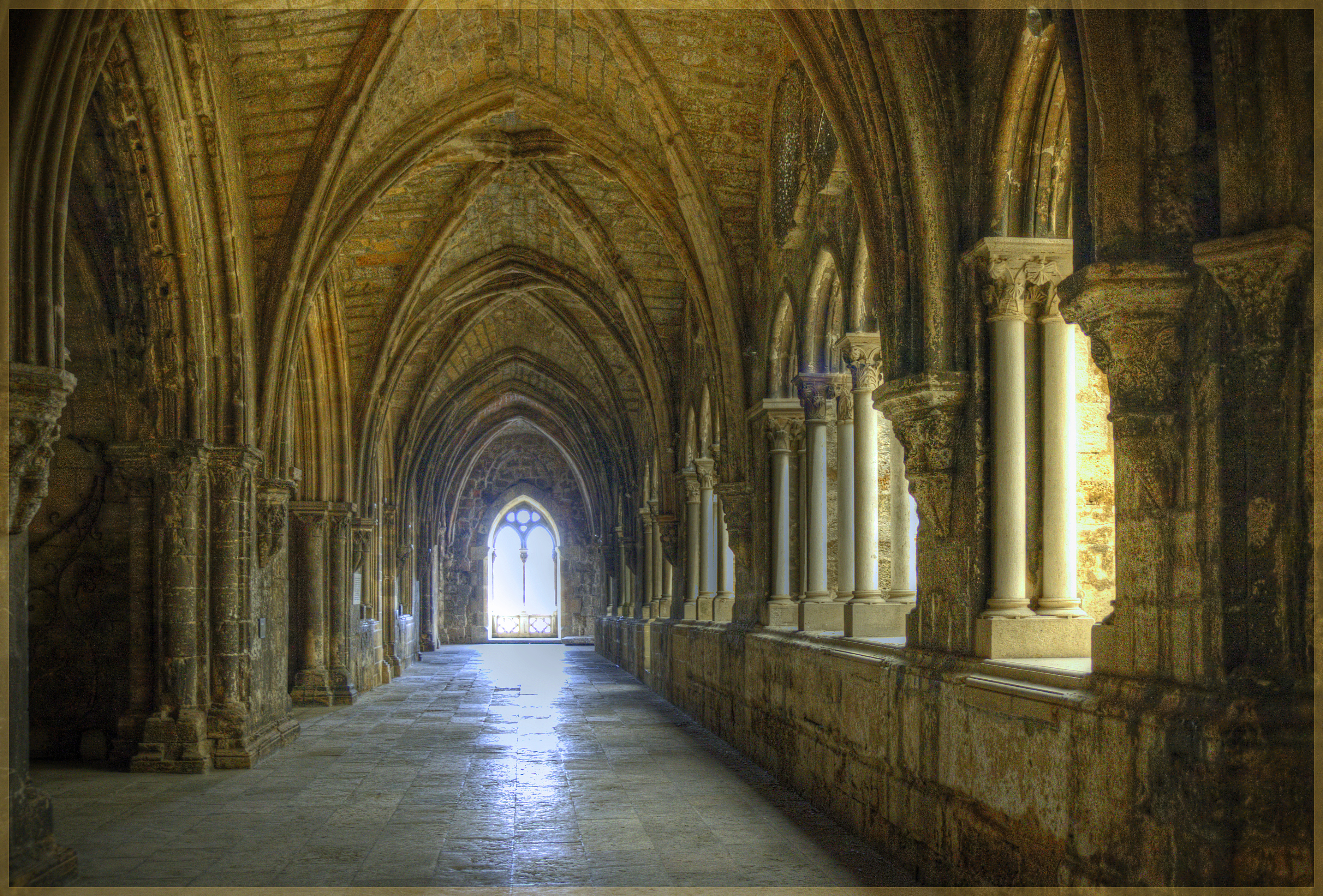 Cloisters of Lisbon Cathedral